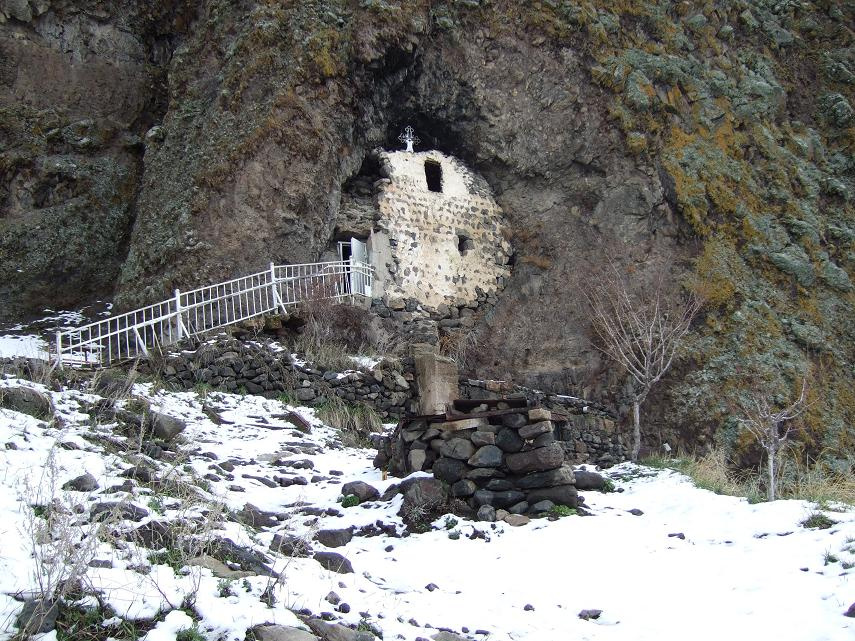 Kuys Varvara (Virgin Varvara) or Tsaghkevank (Flower Monestary), carved in a mountain cave, Mount Ara, Armenia